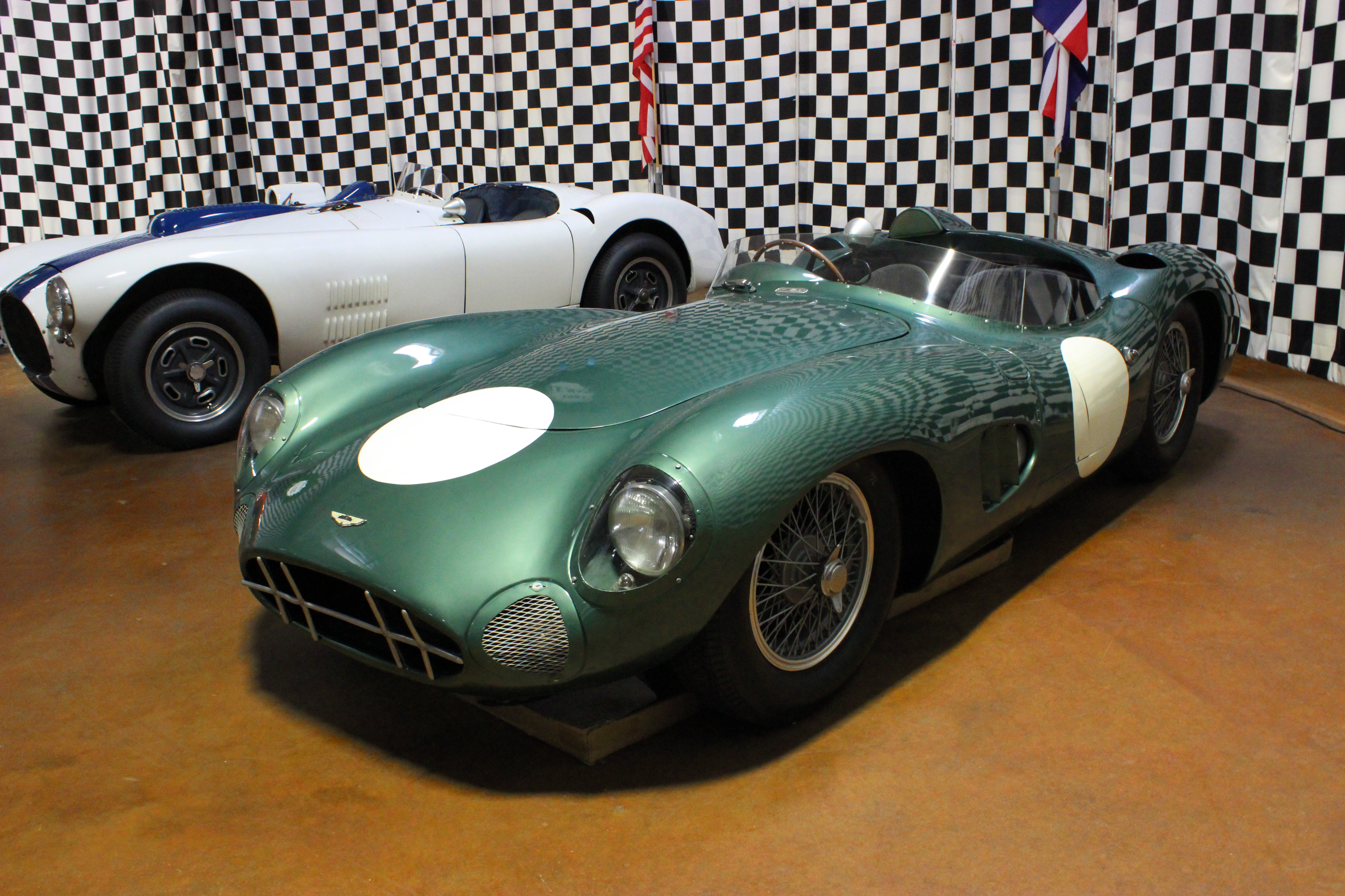 Aston Martin DBR1/3 at the Simeone Museum in Philadelphia on 14 July 2015.[1]